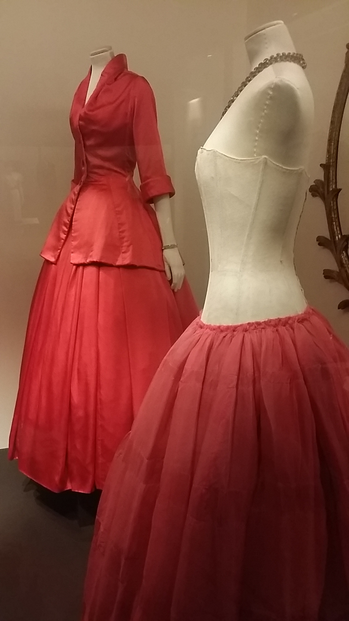 Christian Dior evening ensemble, "Zémire," H Line, Fall-Winter 1954. Red cellulose acetate satin. Ballgown skirt, separate bodice, long jacket, and petticoat with white boned corset bodice and red crinoline skirt.